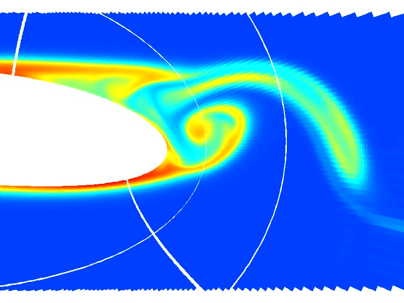 From a numerical simulation of compressible around a Joukowsky Profile at relatively low Mach and Reynolds Numbers. Author: Jan Schulze/ Jörn Sesterhenn, UniBW München Shown is the Entropy. The curved white lines are block boundaries from splitting the domain in several blocks for parallel computation.